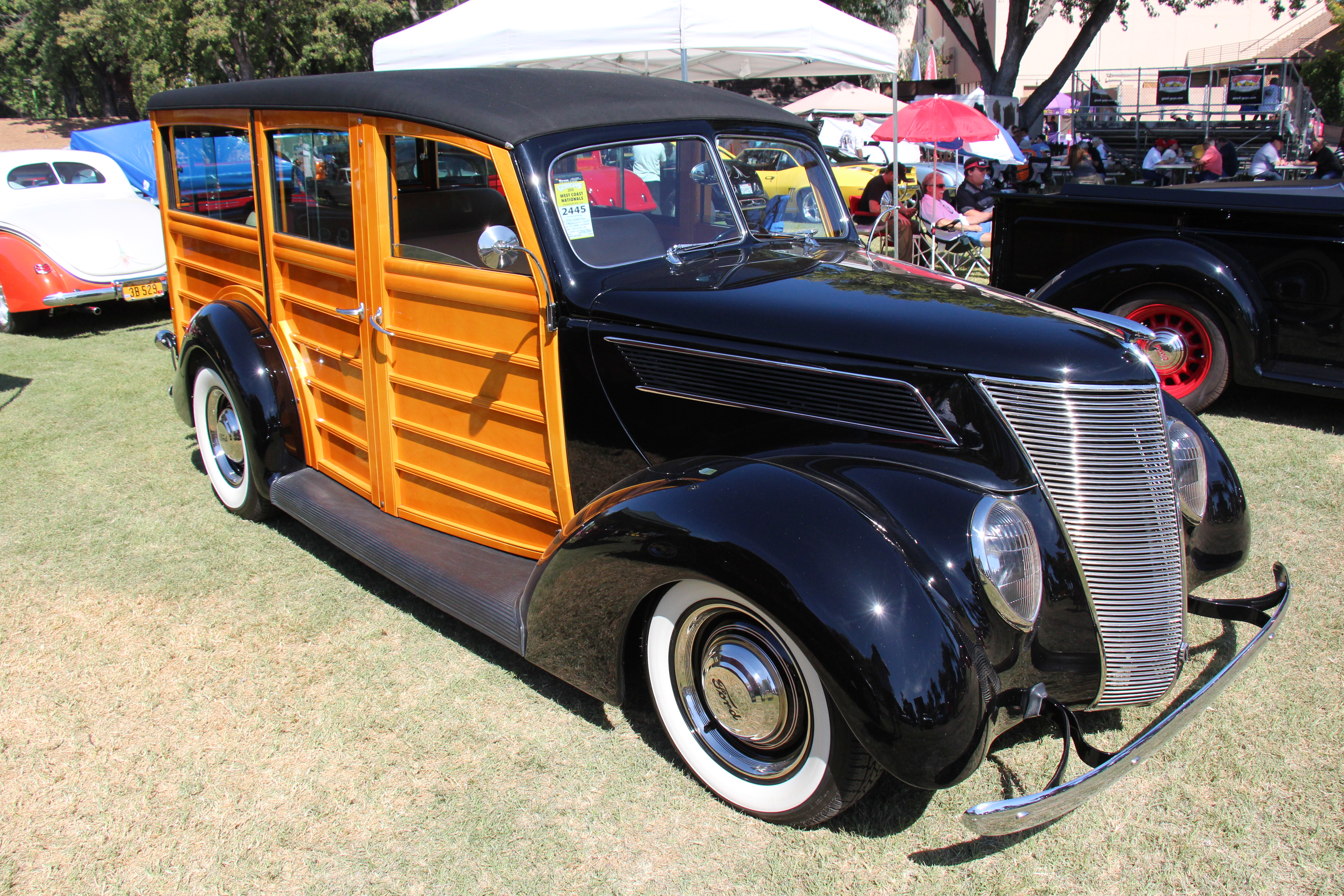 The 1937 Ford got a more rounded body and now fine horizontal bars in the V shaped grille and a V shaped windscreen. The tear drop headlamps, integrated into the front fenders, copied from its cousin, the Lincoln Zephyr, was a modernization found on the Ford before most of the rival brands. The 37 Ford was available in Standard (painted grille) or Deluxe (chrome grille and windshield frame). Standard models available were; Coupe, Flatback or Trunkback Tudors and Sedans. Deluxe models available in Coupe, Woody Wagon, Cabriolet, Phaeton and Roadster The 37 Ford was not only built in the US but also in other countries including Australia. 1934 was the year the worlds first coupe utility was available, Ford Utes designed and built in Australia form 1934-2016 Engines; 136 and 221 cu in V8s